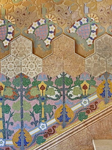 Casa Lleó i Morera. Paret del vestíbul amb mosaics de Lluís Bru i Salelles evocant els fruits de la morera.